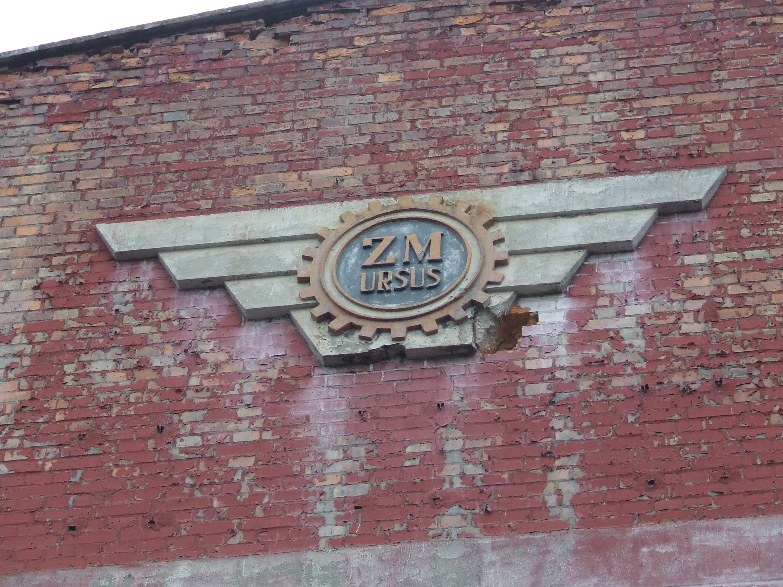 Machine Factory Ursus in Warsaw logo.